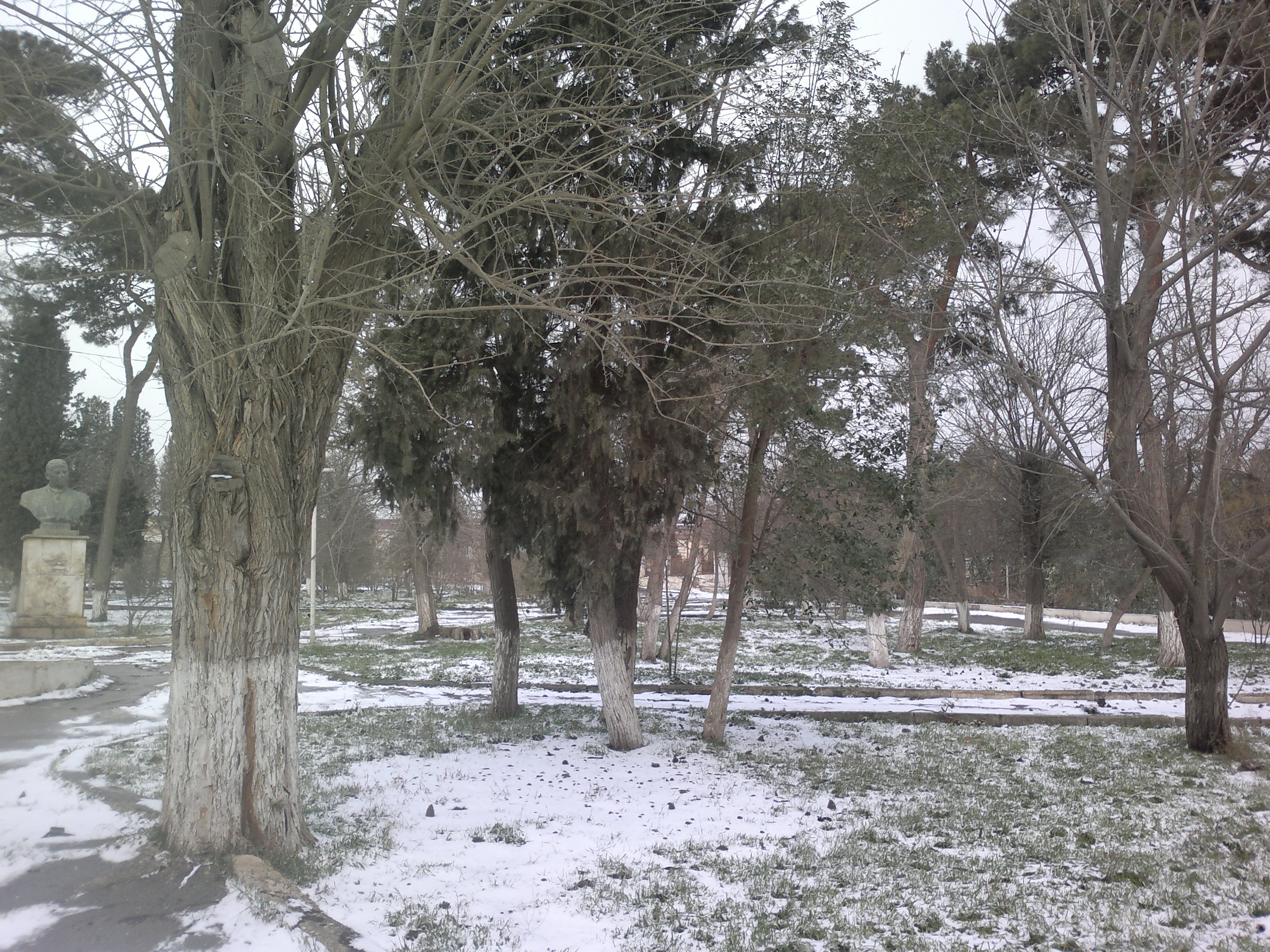 Nizami Park Winter